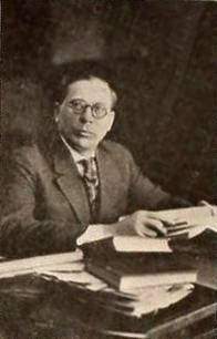 Russian-born American screenwriter and film director Ivan Abramson (1869 – 1934), on page 3511 of the April 17, 1920 Motion Picture News.